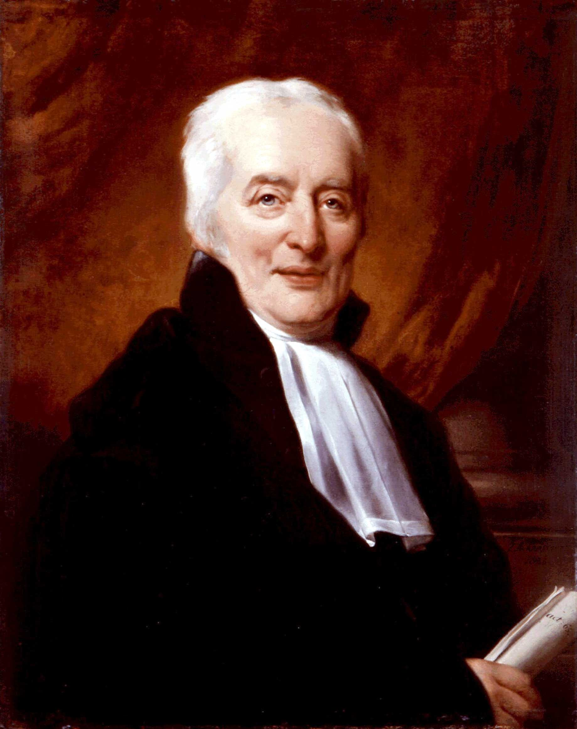 Adam Simons (1770-1834) Dutch Reformed theologian, poet and historian